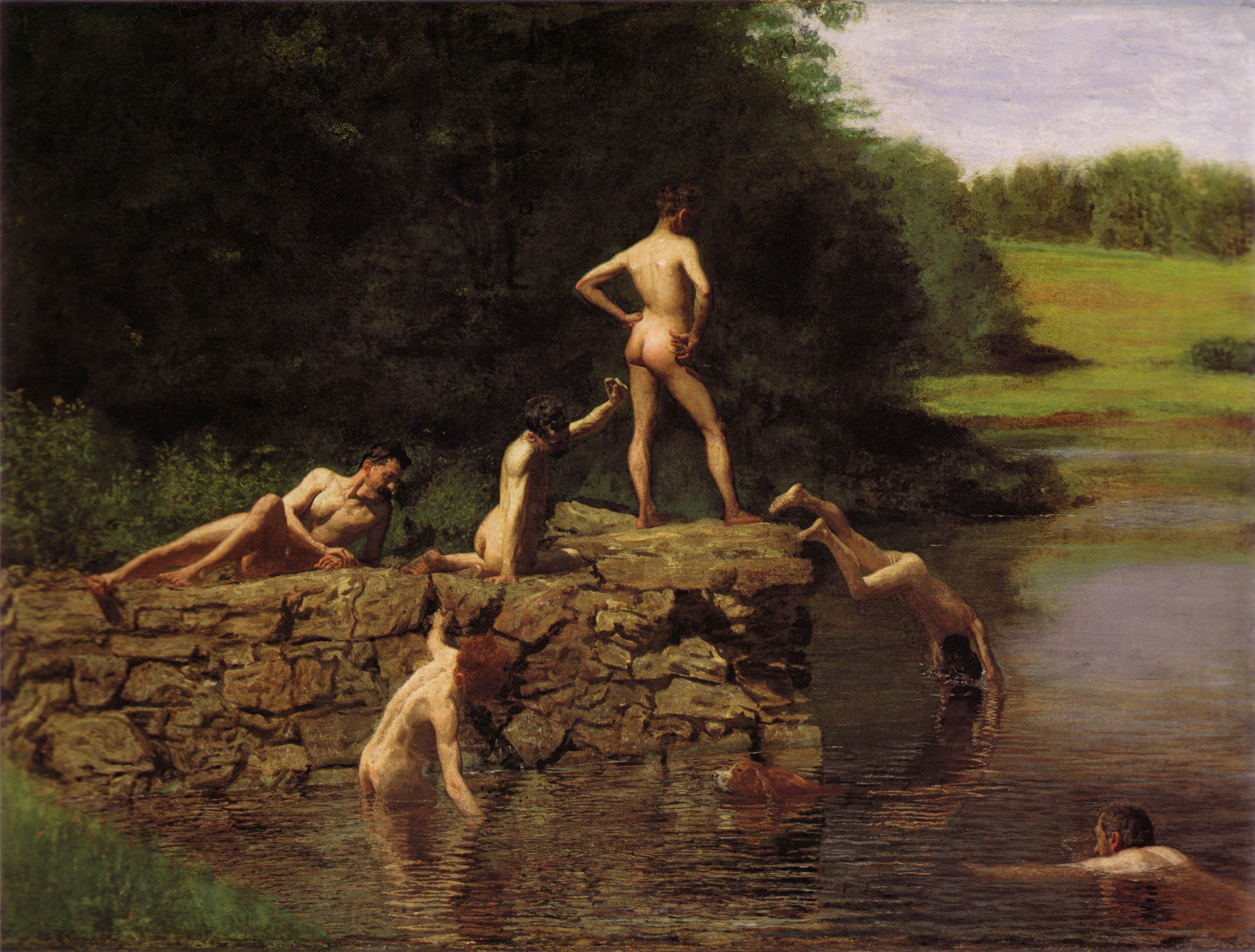 Also known as The Swimming Hole and The Swimmers. This painting was painted using the pictures of his art students bathing in the nude (See the gallery below).